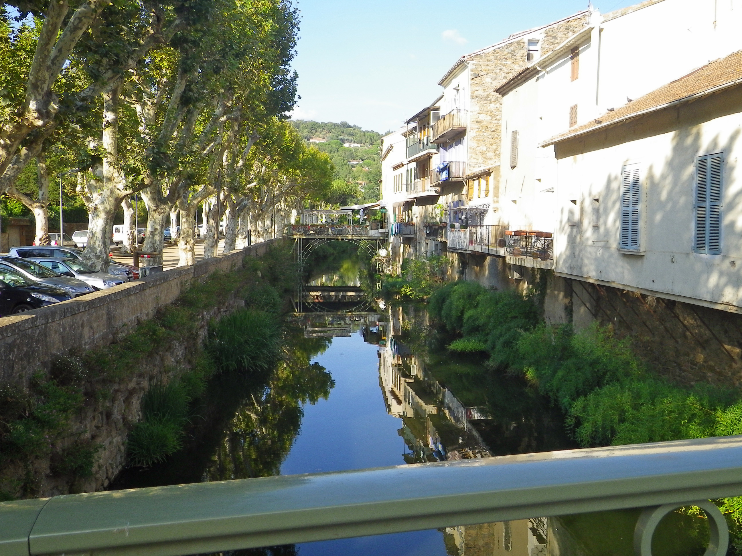 Réal Collobrier in Collobrières (Var, France)